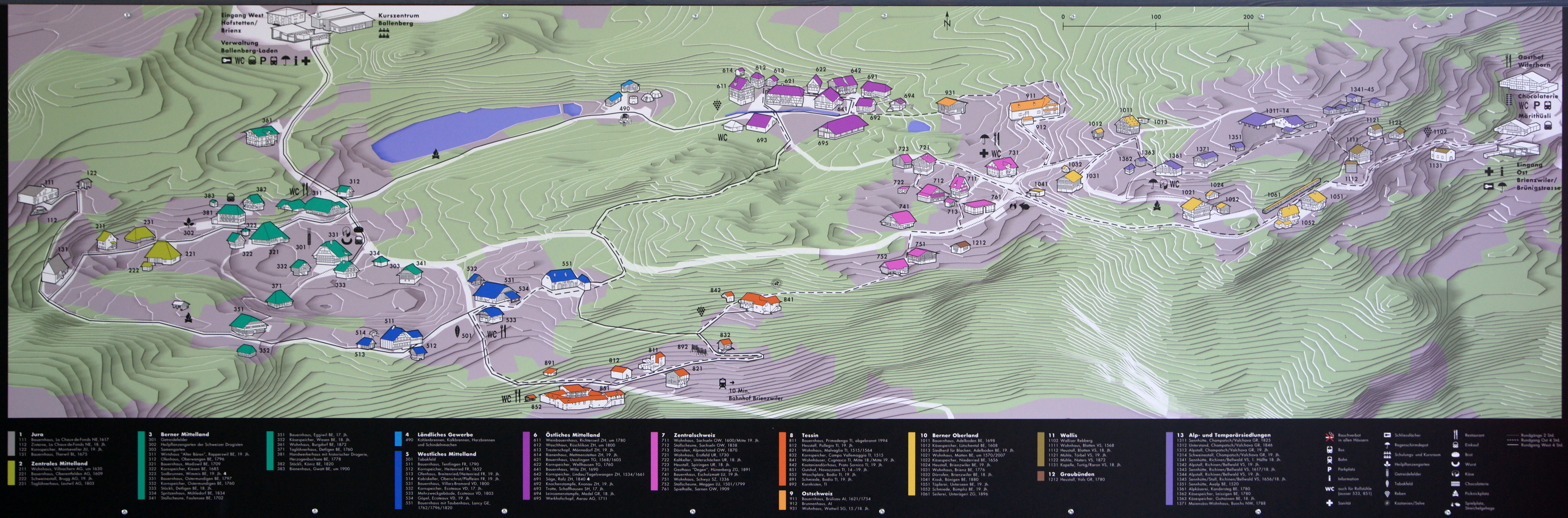 Photograph of the general plan of the Freilichtmuseum Ballenberg displayed at the museum's entrance.